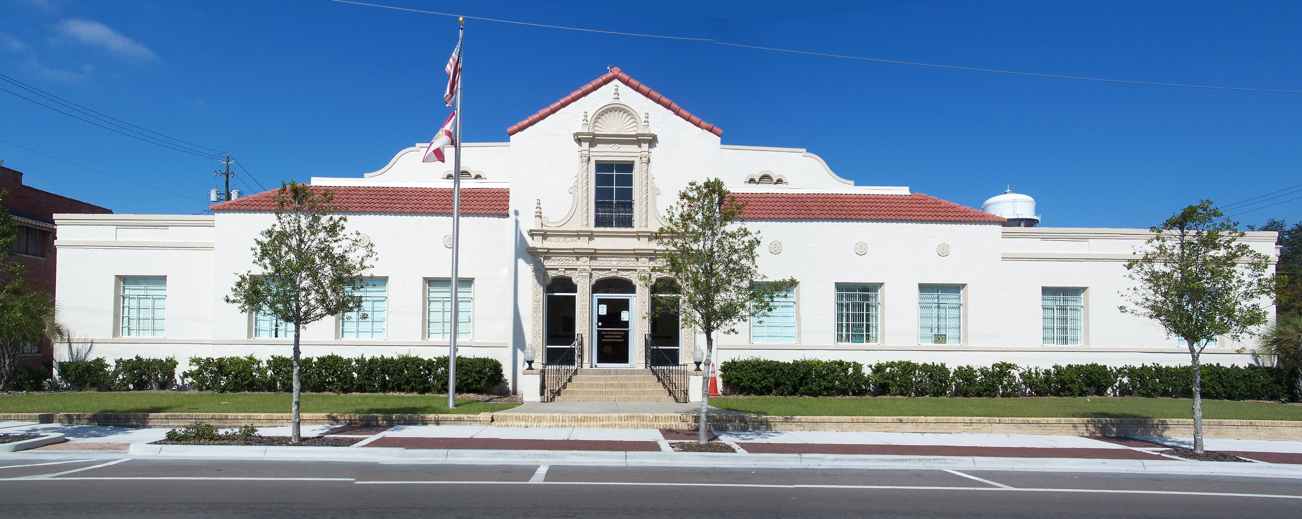 Wauchula, Florida: Panorama view of former city hall.